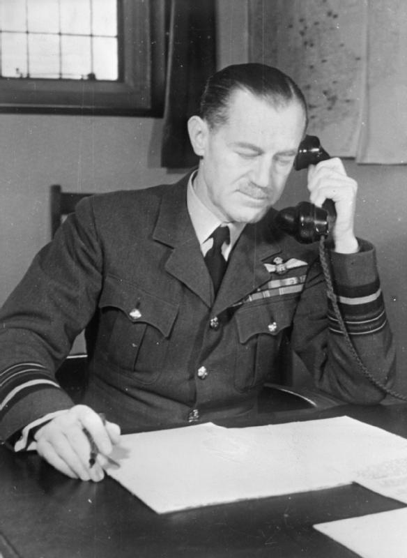 Air Marshal J T Babington, Air Officer Commanding-in-Chief, Technical Training Command, at his desk at the Air Ministry, London